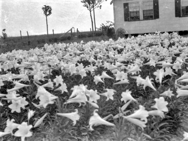 A garden of bell-shaped flowers next to a house